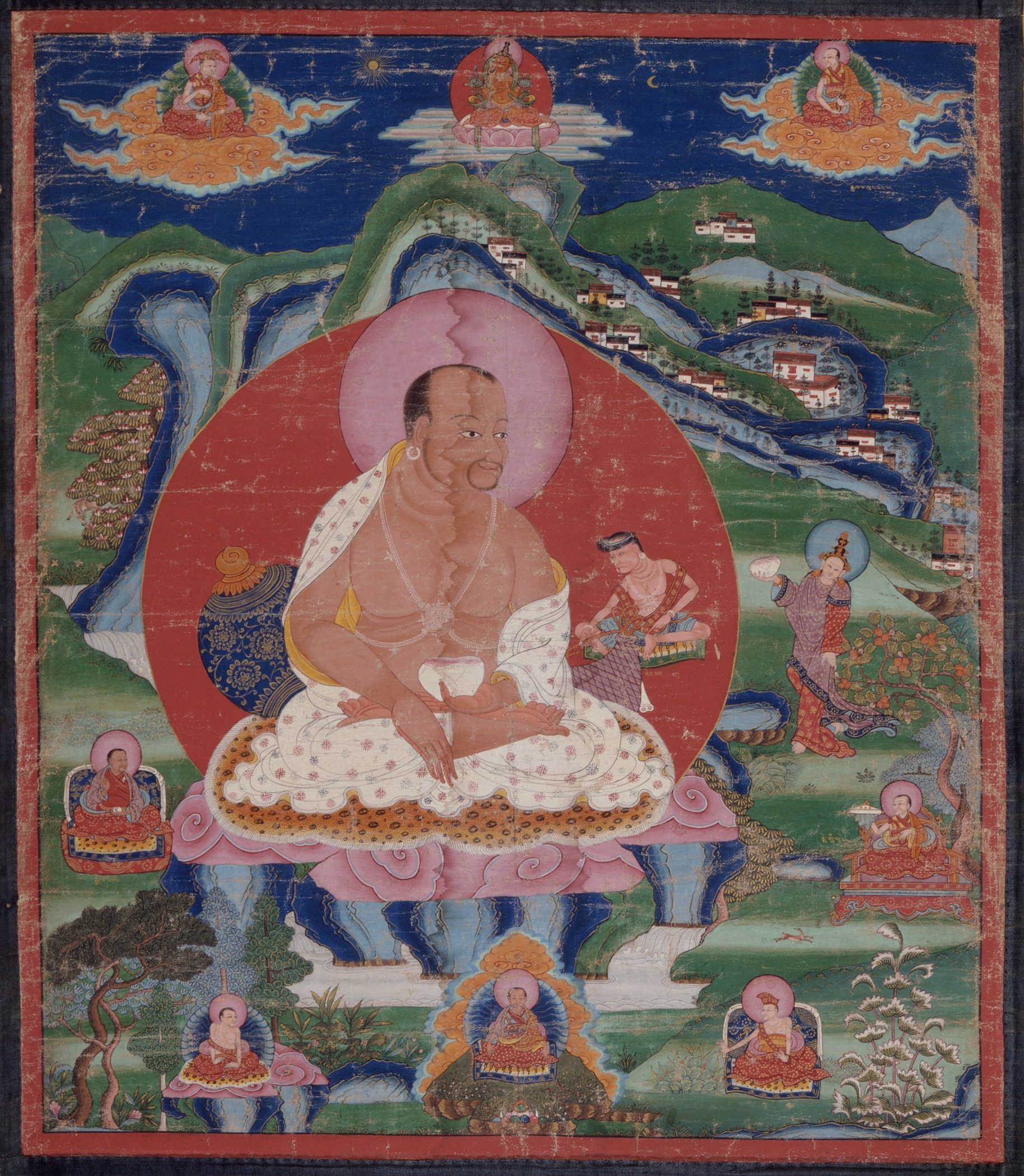 Central Tibet, mid-18th century Paintings Mineral pigments and gold on cotton cloth Gift of Dr. and Mrs. Robert S. Coles (M.81.206.12) South and Southeast Asian Art